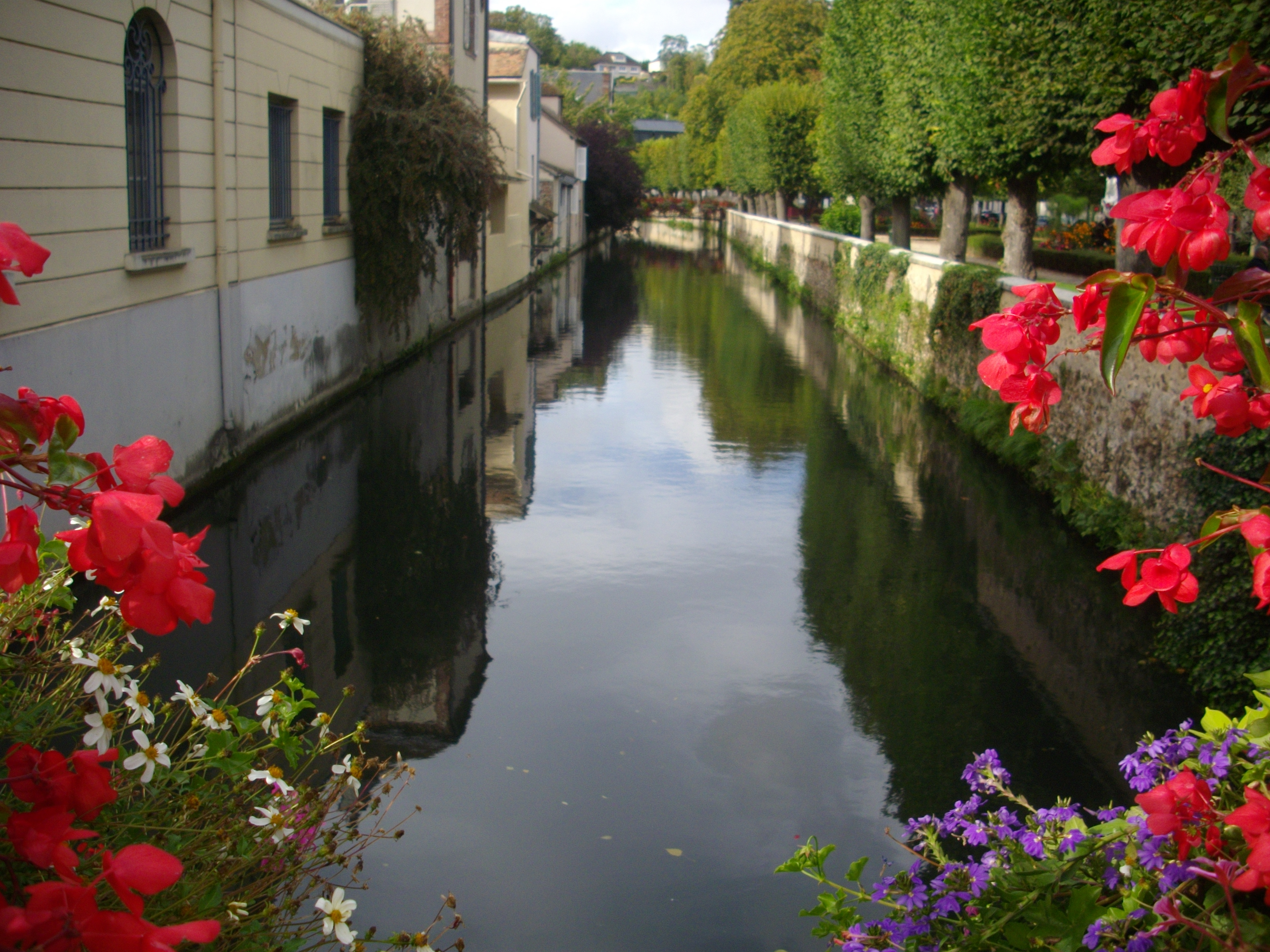 Blaise river in Dreux (Eure-et-Loir, France), at the bridge of Sénarmont street